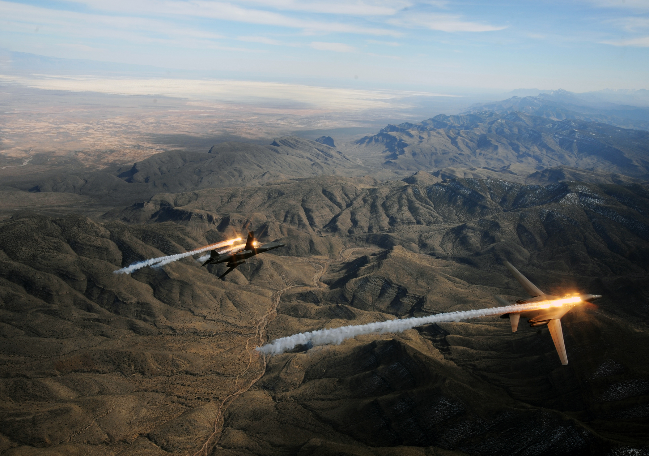 A two-ship formation of U.S. Air Force B-1B Lancers assigned to the 28th Bomb Squadron, Dyess Air Force Base, Texas, releases chaff and flares while maneuvering over New Mexico during a training mission Feb. 24, 2010.